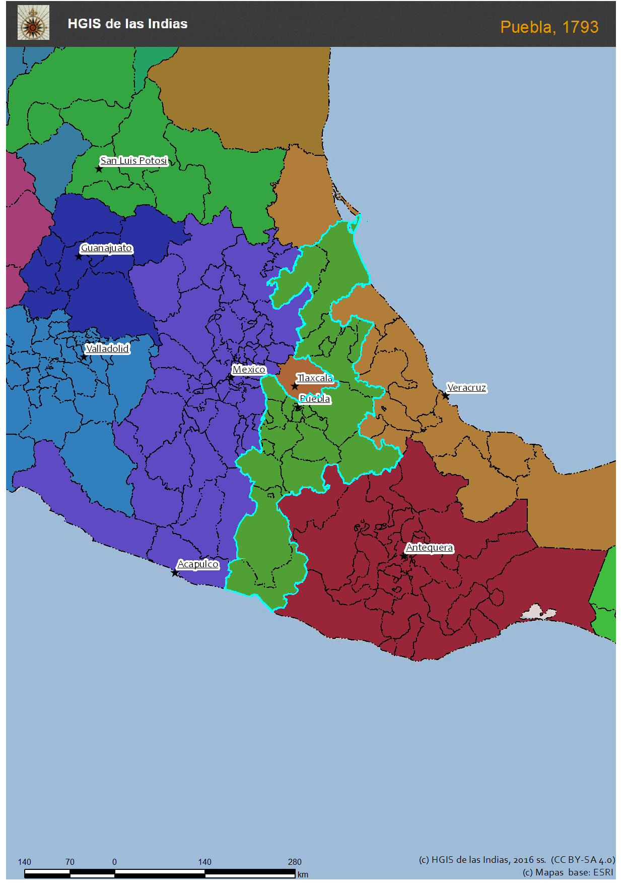 Intendency of Puebla from 1793 onwards.